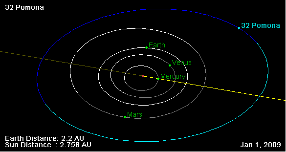 32 Pomona orbit, and his position on 01 Jan 2009 (NASA Orbit Viewer applet)